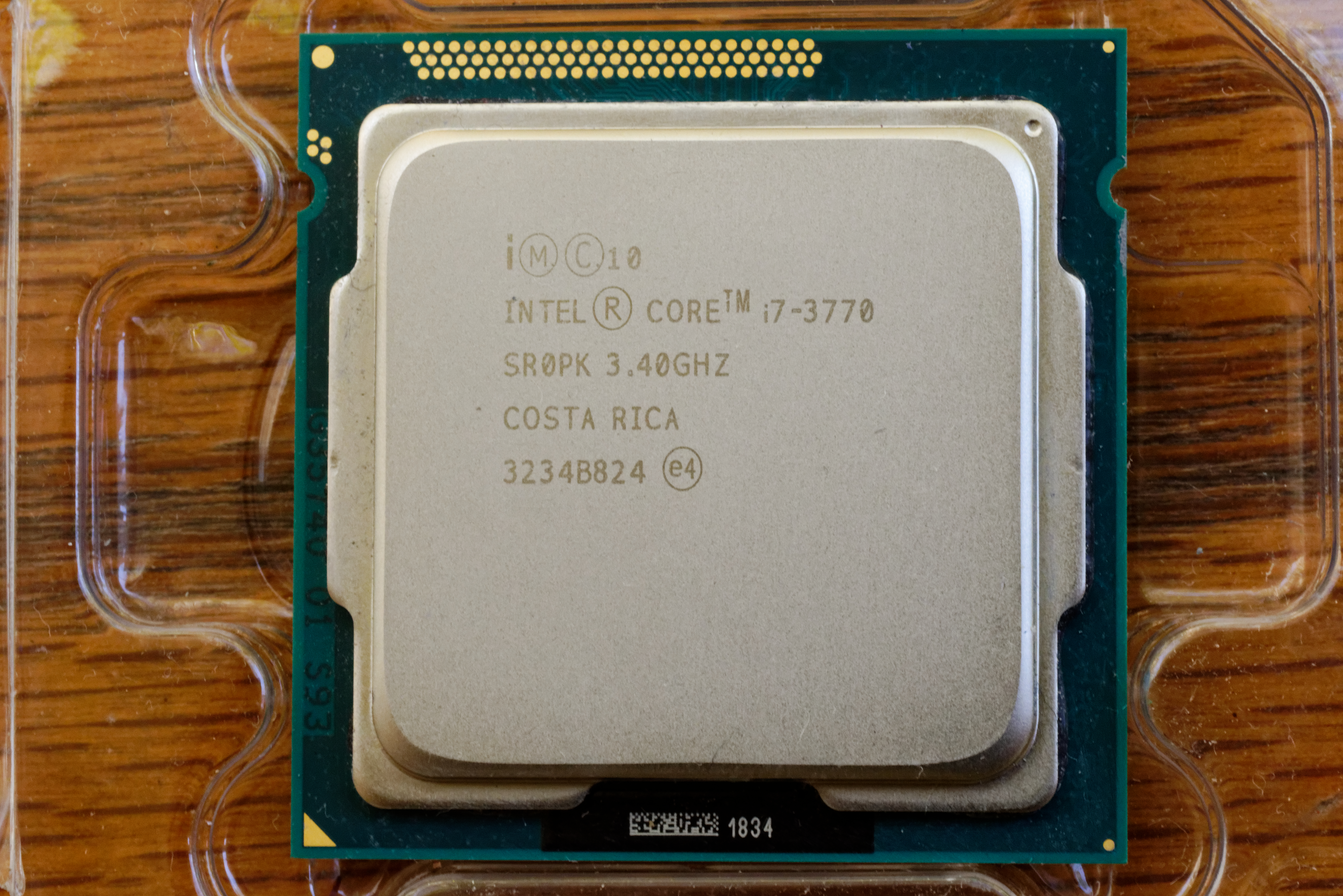 Top of Intel Core i7-3770, Ivy Bridge